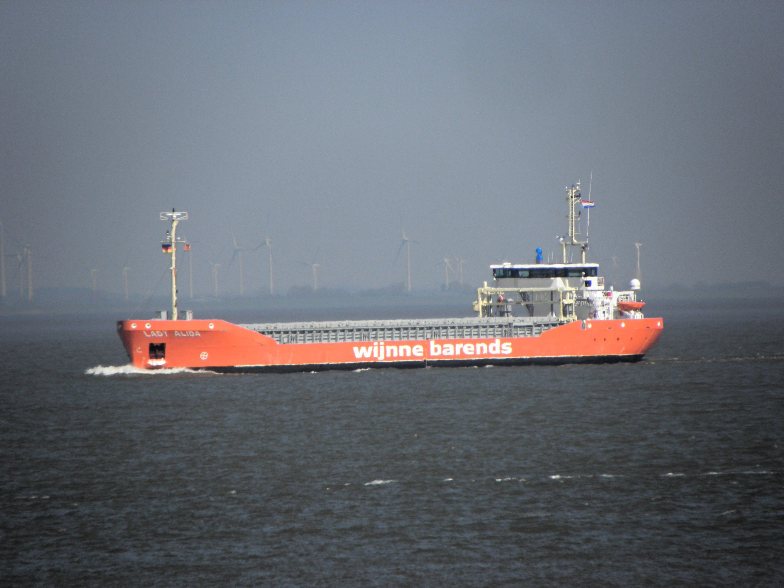 Aus Cuxhaven Mai 2017